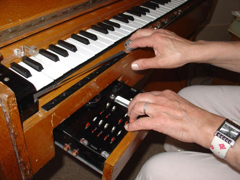 Ondes Martenot: Ribbon playing technique (au ruban) “sliding a metal ring worn on the right-hand index finger in front of the keyboard” —quoted from "Ondes Martenot" on English Wikipedia Location : Atelier Jean-Louis Martenot, Neuilly, suburb of Paris, France.